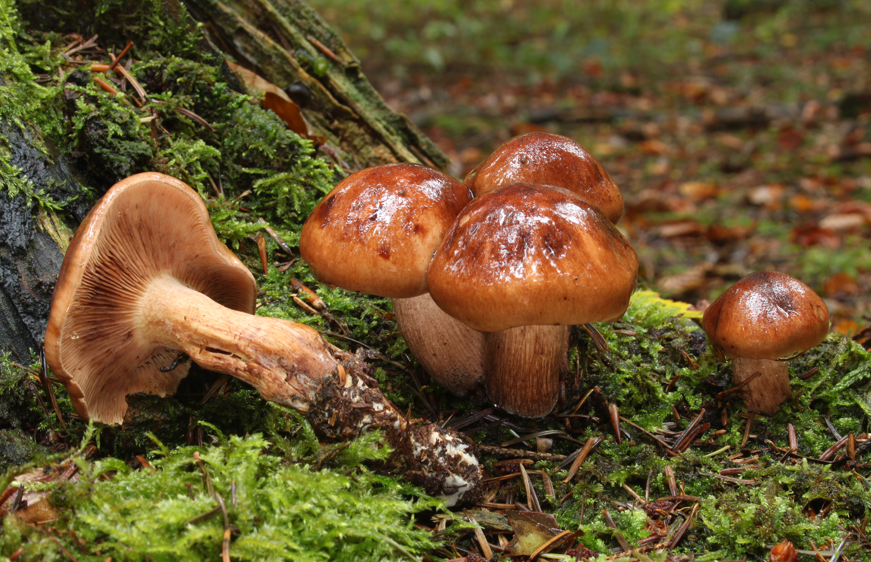 Burnt Knight, Tricholoma ustale, Family: Tricholomataceae, Location: Germany, Ulm, Eggingen